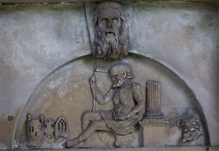 Fortrose Cathedral, Highlands, Scotland - detail of memorial of Sir Kenneth Mackenzie